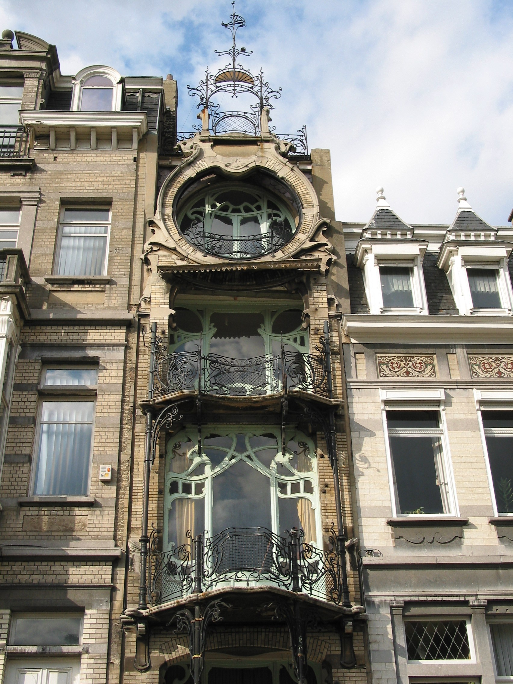 Brussels (Belgium), Ambiorixsquare - The St. Cyr hotel (1903 - Architect: Gustave Strauven).